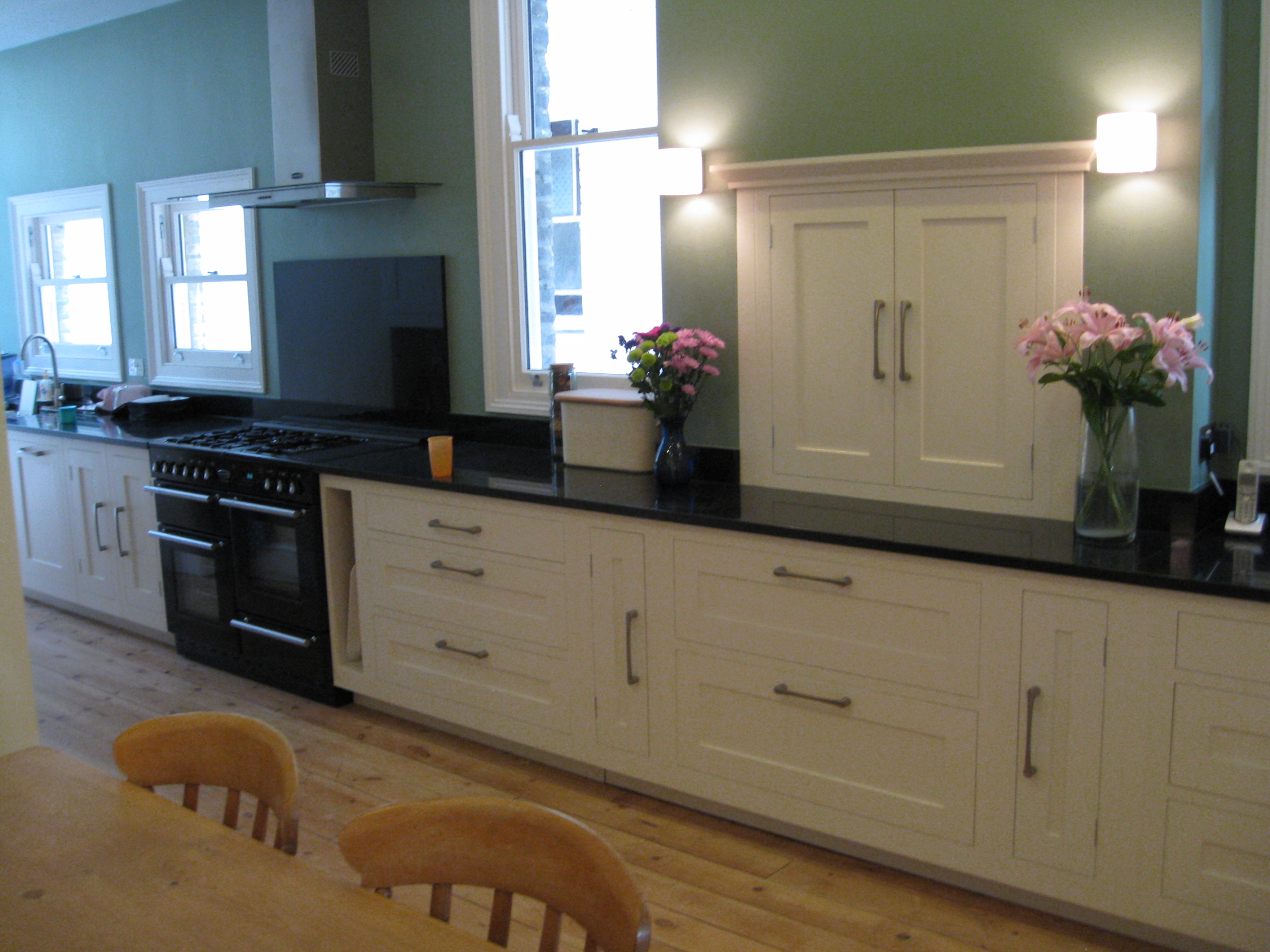 Image of hand fitted designer kitchen